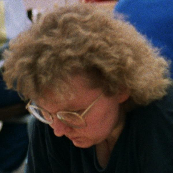 Nina Høiberg (Denmark), Chess Olympiad 1988 in Thessaloniki, Photographer Gerhard Hund.